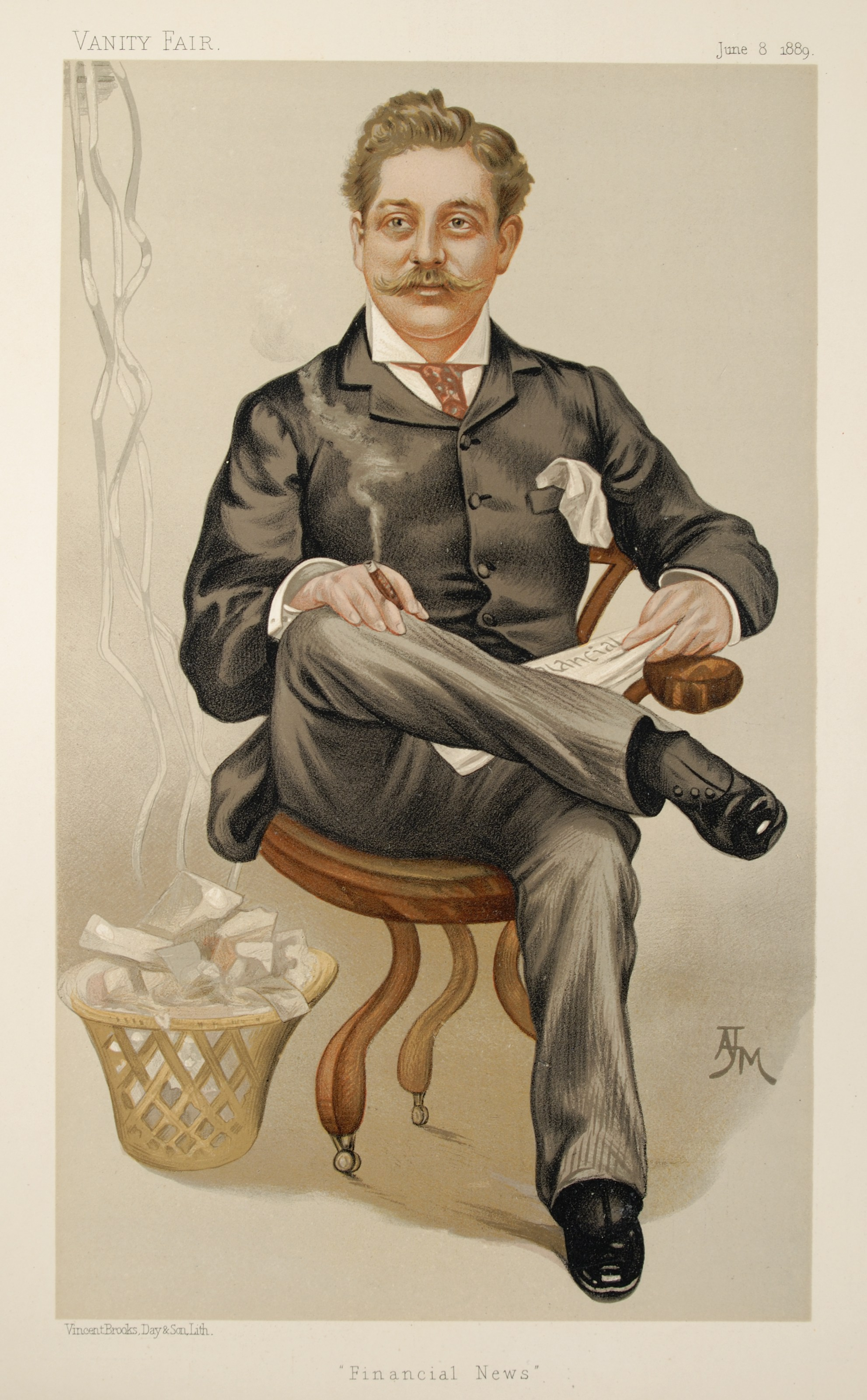 Men of the Day No. 428: Caricature of Harry Marks. Caption read "Financial News".